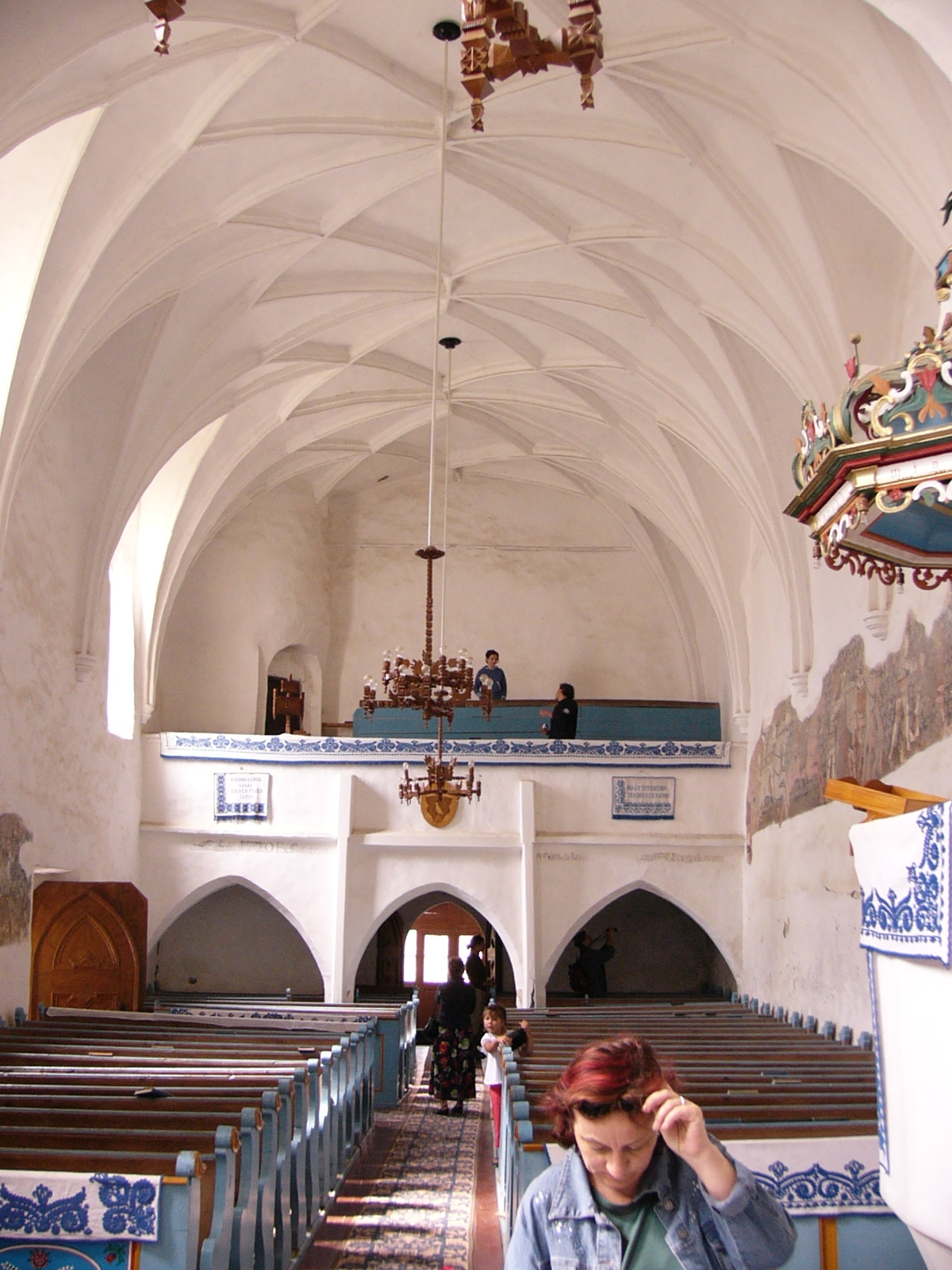 Dârjiu. Unitarian church. Internal of the Gothic Derzs Church.